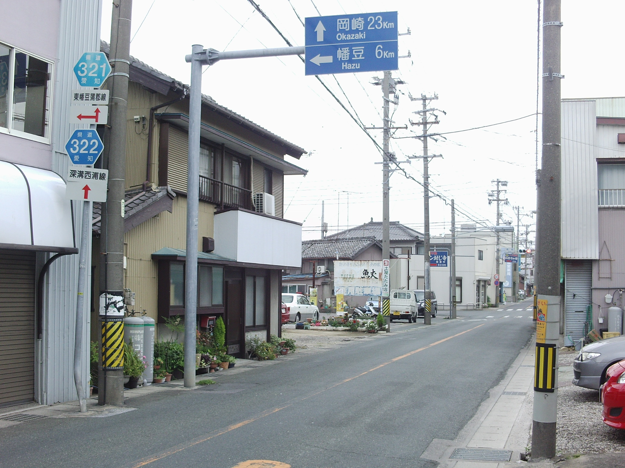 Aichi prefectural road No.321 and No.322 overlap zone in Baso, Nishiuracho, Gamagori, Aichi.